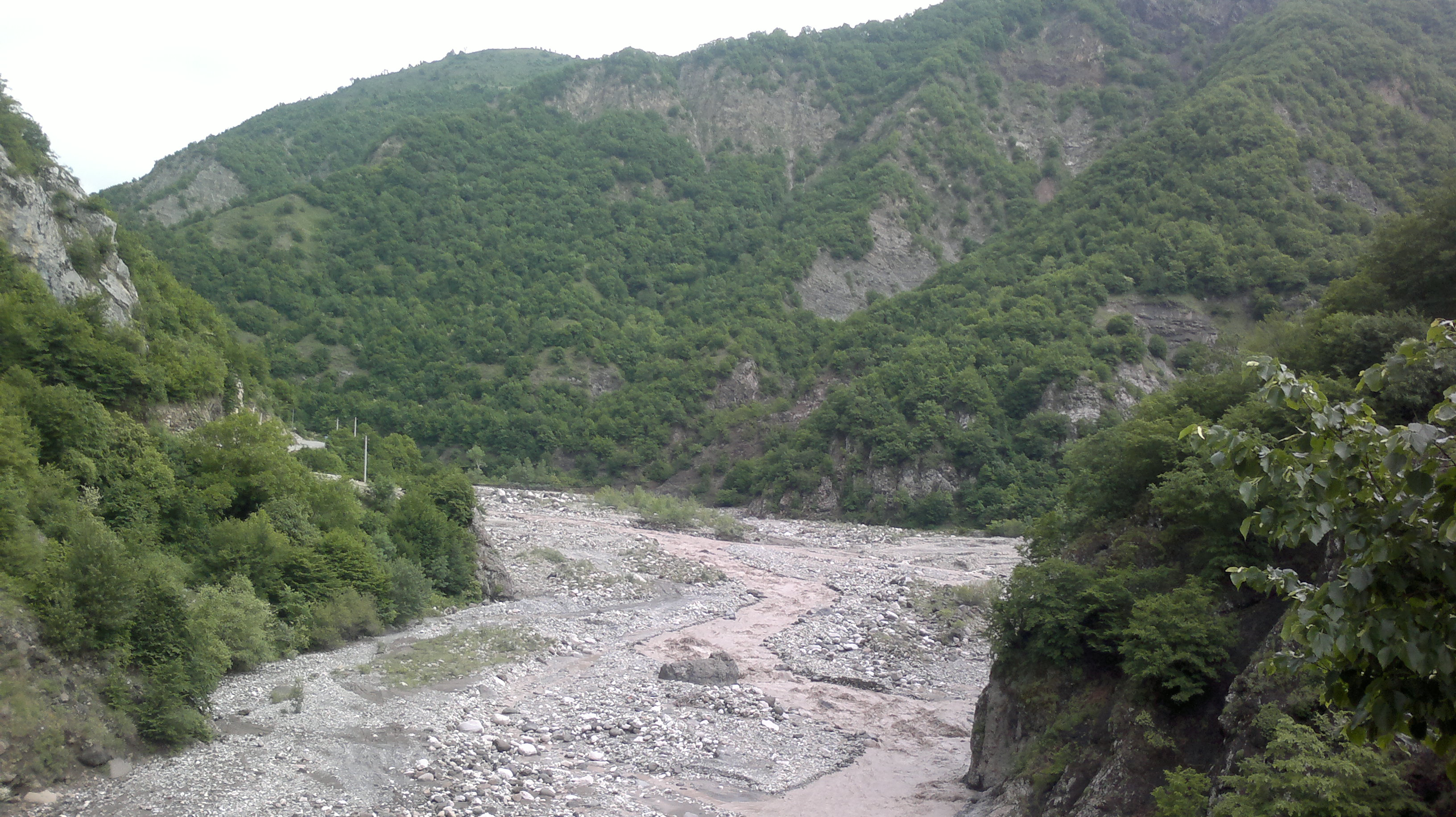 Girdimanchay river near Lahij, Azerbaijan.